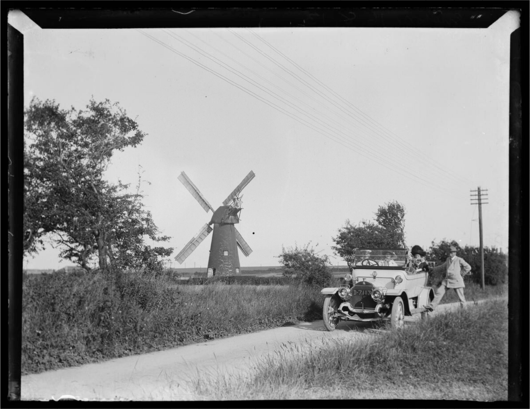 A photograph showing Guston Windmill, Kent taken in 1913. Photographer Edgare Terry Adams (1852-1926).